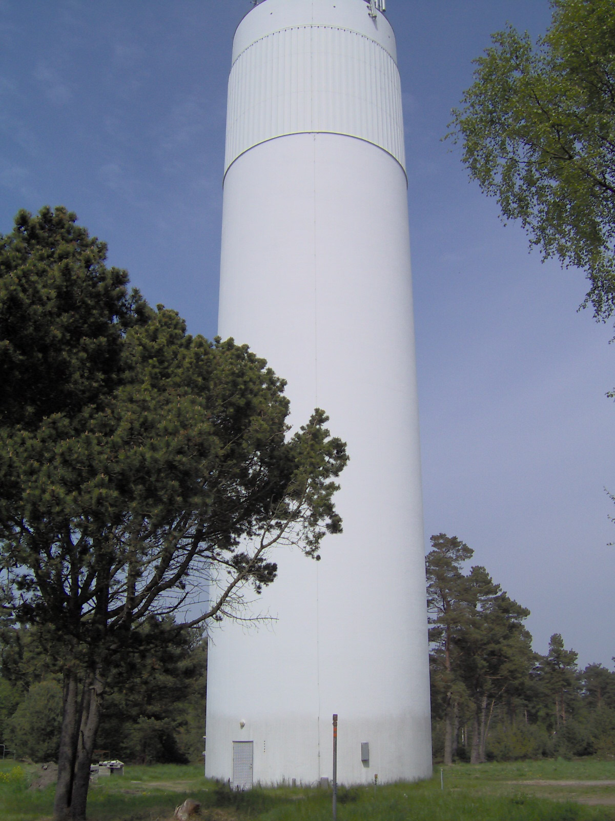 Ljunghusen water tower Source: taken by user may 22nd 2005